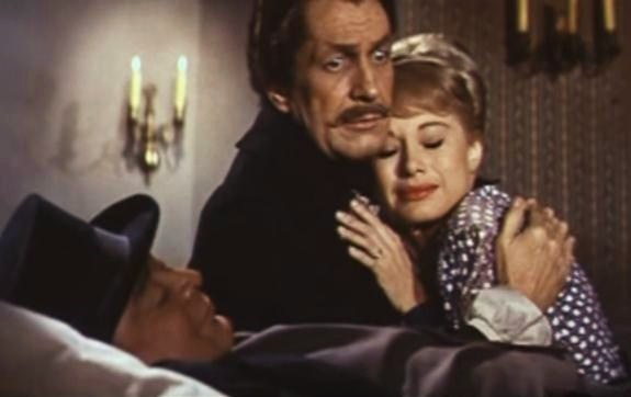 L. to R. : Peter Lorre, Vincent Price & Joyce Jameson in Tales of Terror - trailer (cropped screenshot)